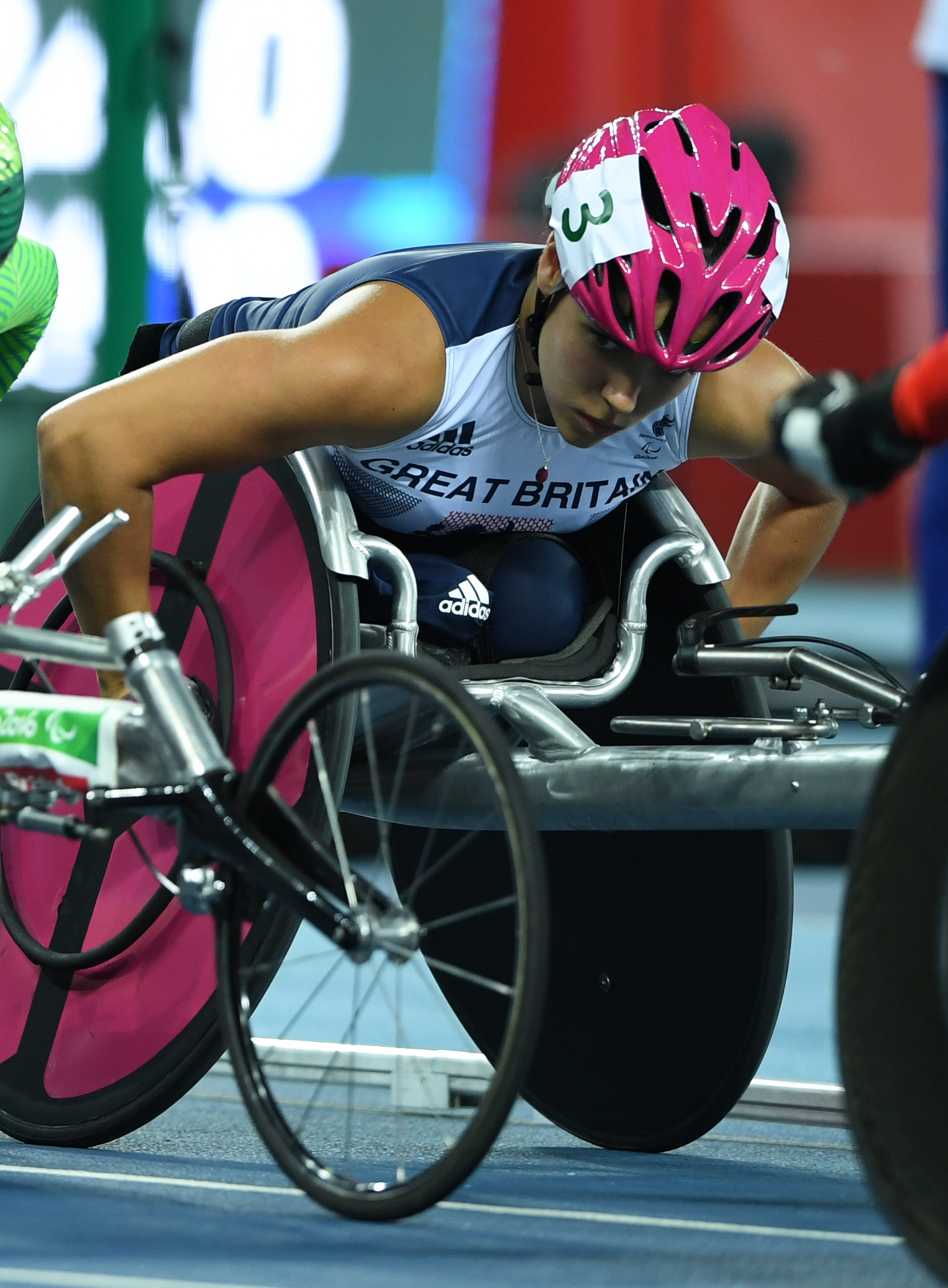 Jade Jones in Rio de Janeiro - Wheelchair 1500m Women;s Category T54 at the Paralimpics in Rio (Picture by Tomaz Silva/Agência Brasil)